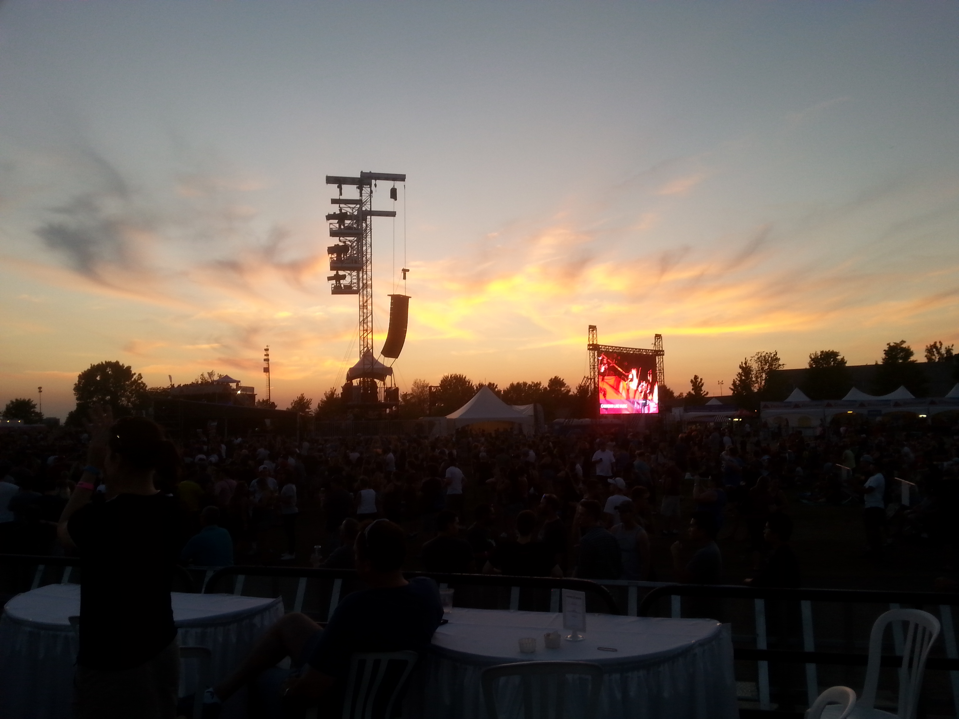 A beautiful view of the closing night of Ottawa's RBC Bluesfest 2018, as taken by a Bluesfest volunteer.